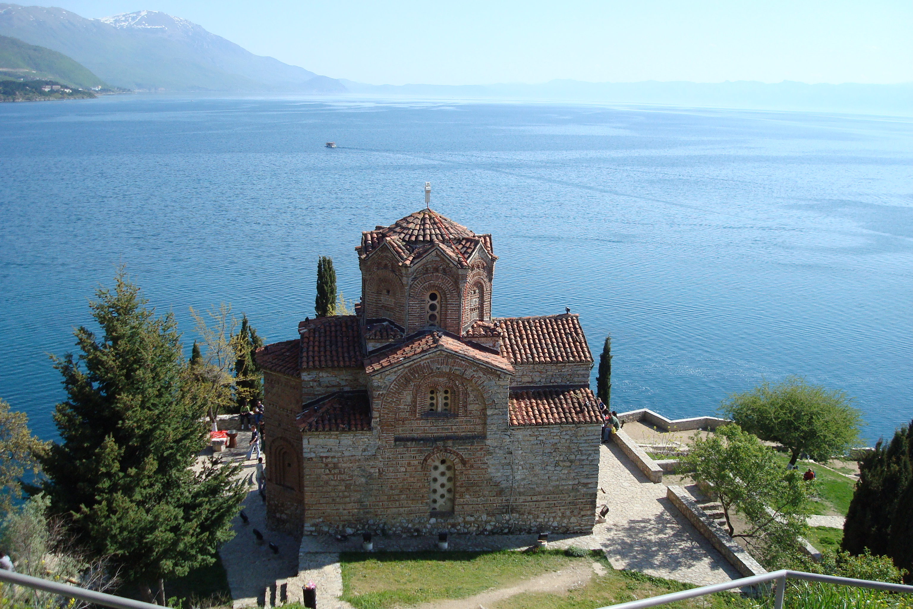 St. John Kaneo, Ohrid, Macedonia.